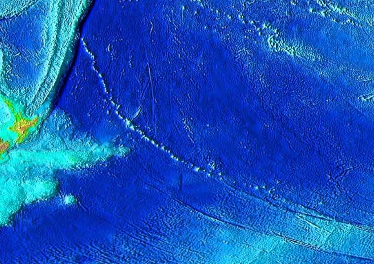 Topographical map of the Louisville seamount chain.